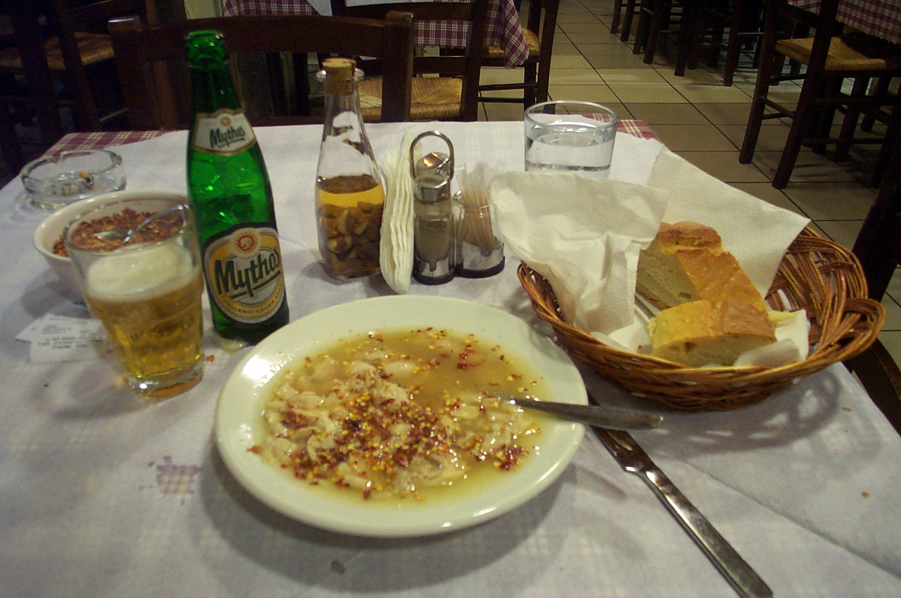 Patsás (Greek: πατσάς), a Greek hangover fix made of tripe, very similar to the Turkish işkembe soup.